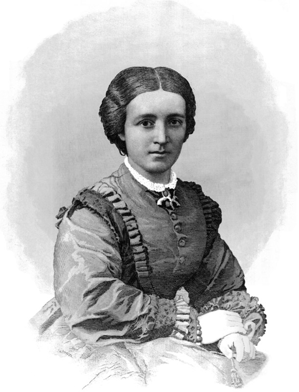 Mary J. Safford (1834-1891), American author, American Civil War nurse and physician. Steel engraving.